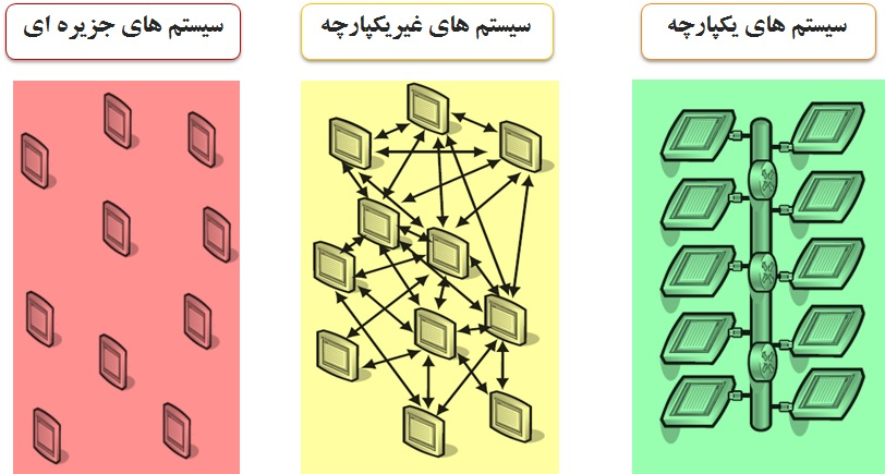 گذرگاه سرویس سازمانی